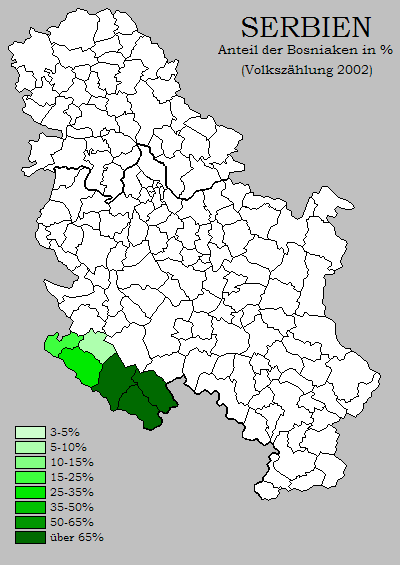 This map shows the percentage of Bosniaks in Serbian municipalities according to the 2002 census.